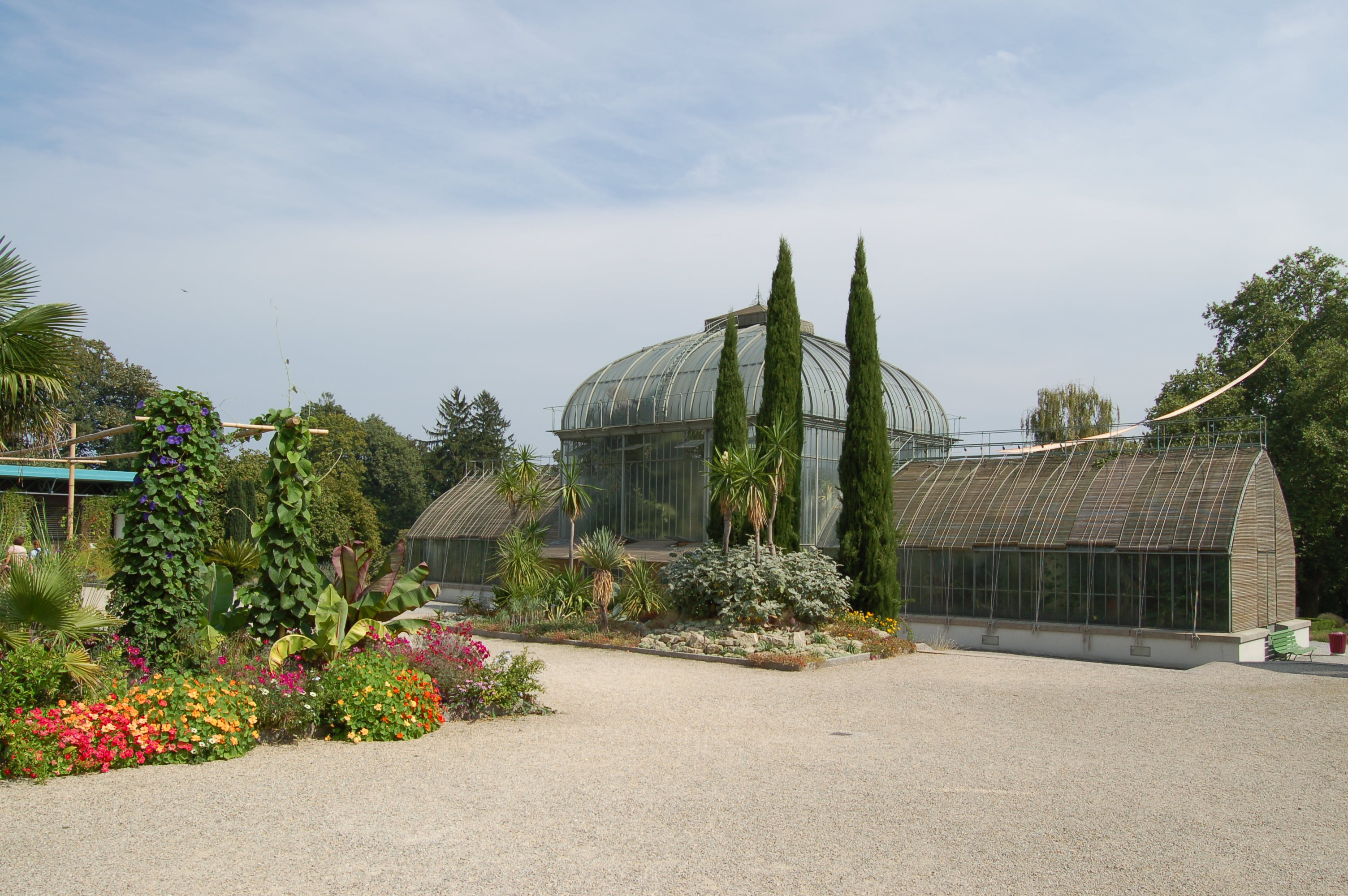 Geneva